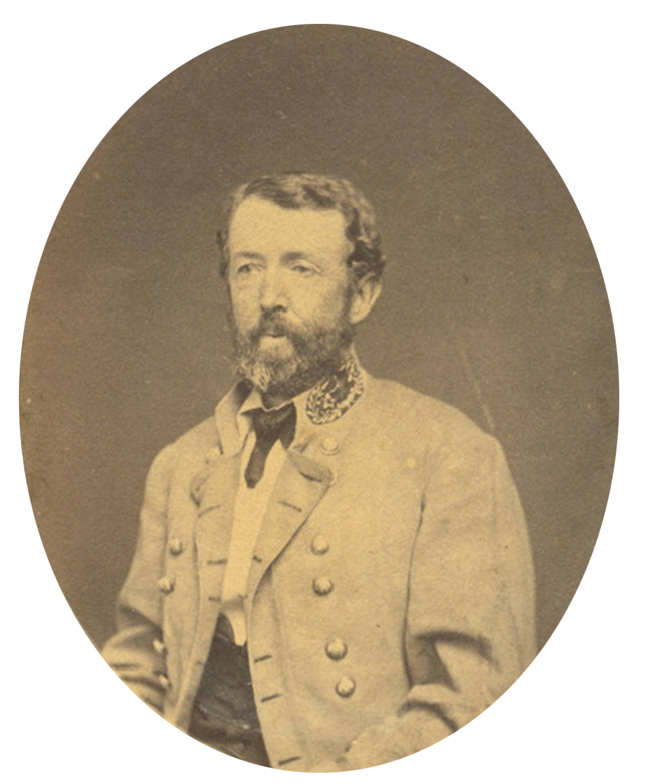 Brig. Gen. John Creed Moore, CSA.